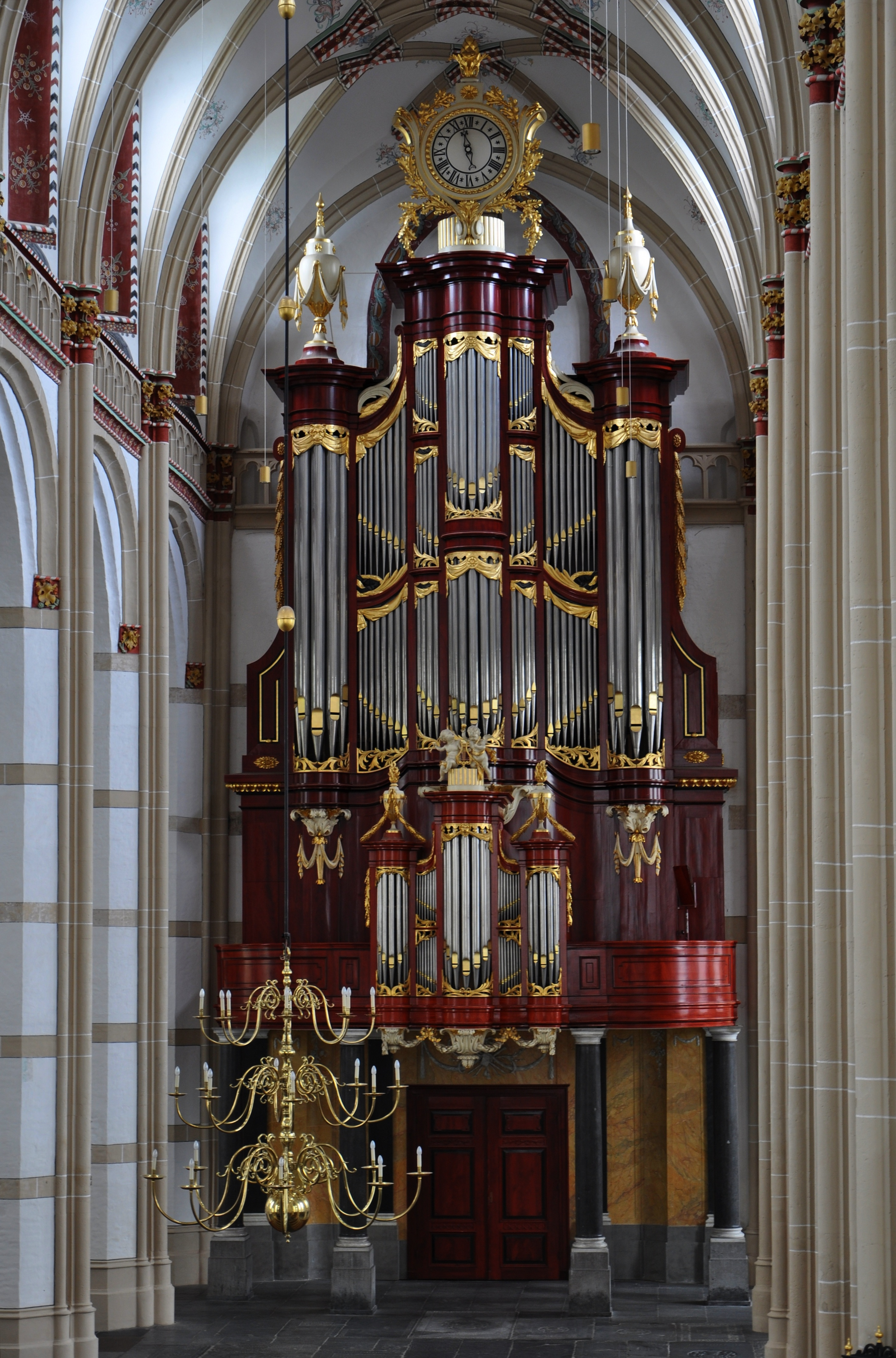 Organ at St. Martin's Church at Zaltbommel (the Netherlands)